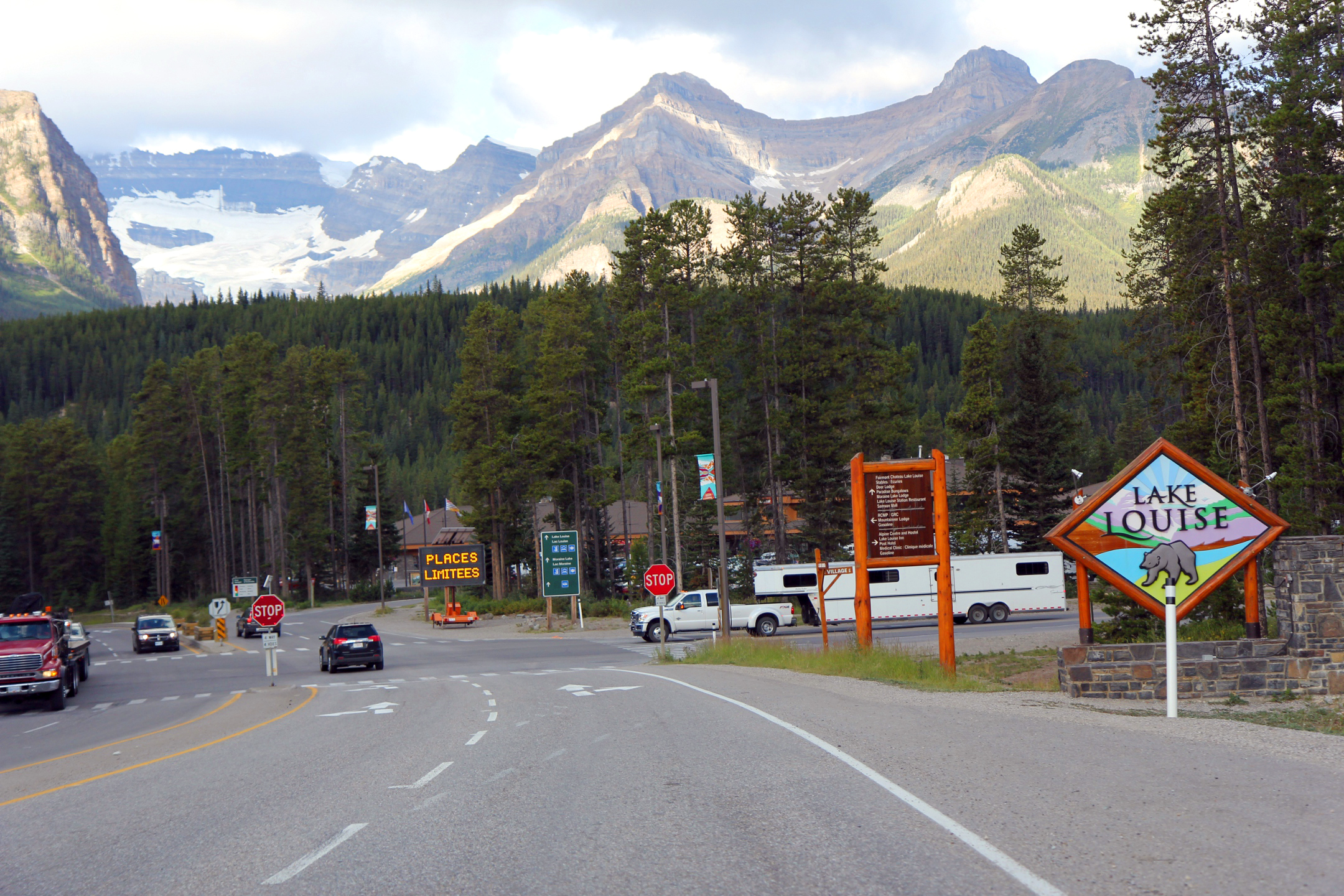 The entrance to Lake Louise, Alberta.